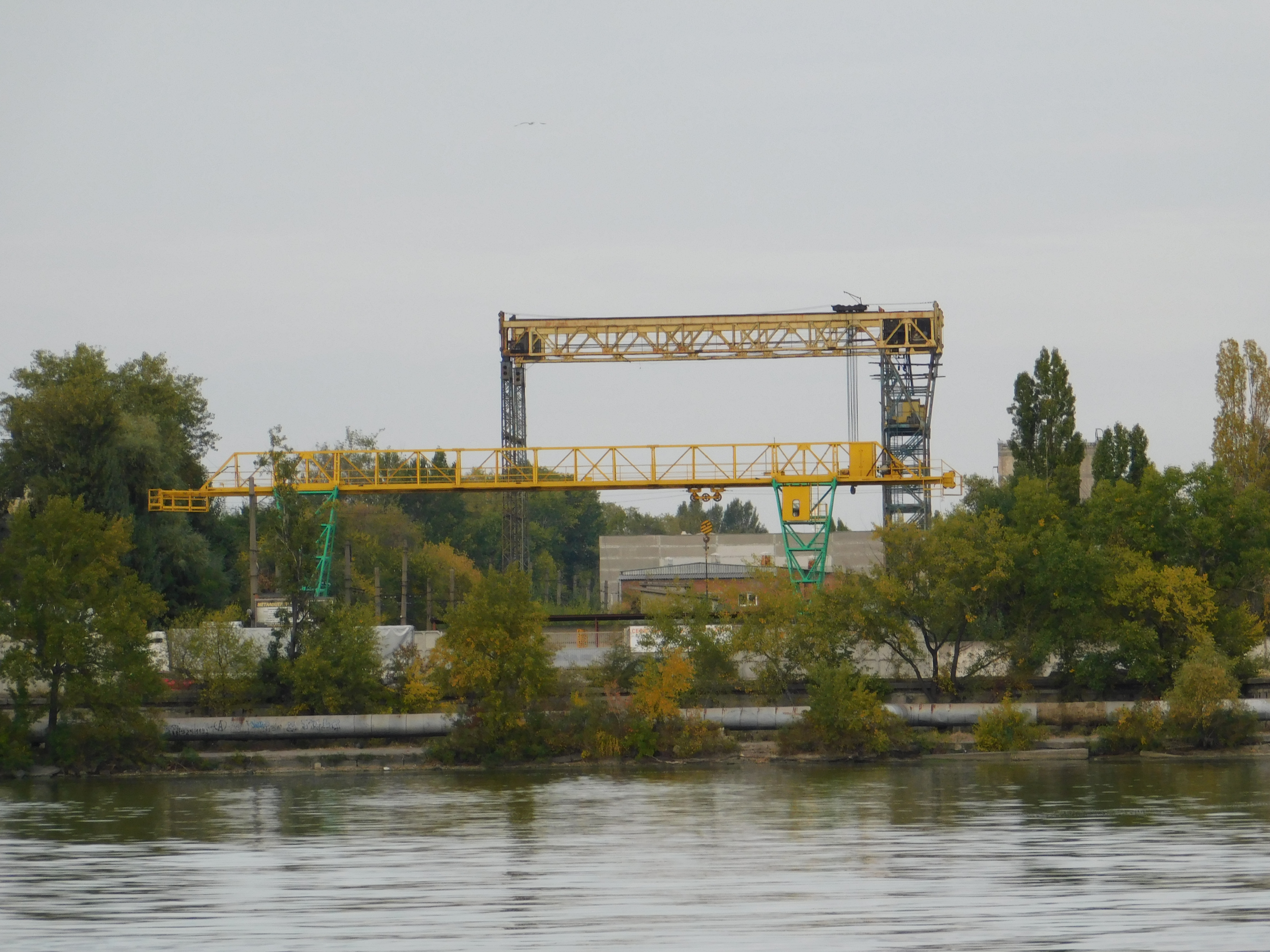 Railway port cranes; Dnipro, Ukraine; 27.09.19